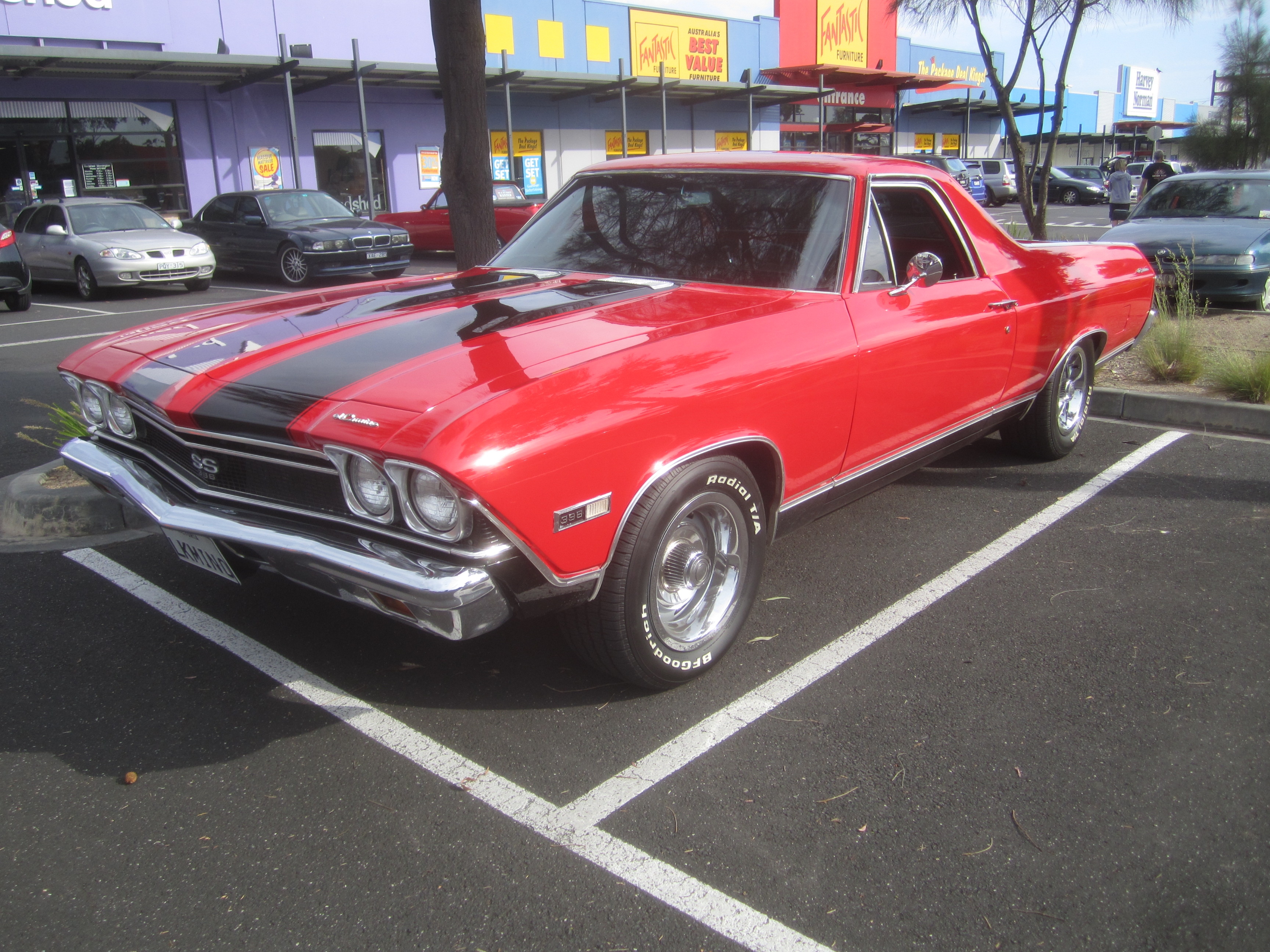 From 1964-1977 the El Camino Coupe Utility was built on the Chevelle platform (later on the Malibu platform) It was identical to the Chevelle from the B pillar forward. As with the 2nd generation Chevelle, the El Camino got a new body in 1968, slightly shorter wheelbase and a long bonnet, short deck look, the front fenders angled again. Top model was the SS396 with 325 hp